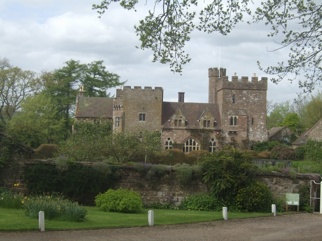 Broncroft Castle Largely 19th Century private house built around a 14th Century fortified tower. The castle was garrisoned during the Civil War. It is constructed of the local sandstone.